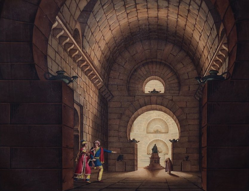 Scene (2.2 scene 7 "Tempio Sotterraneo") from the opera Maometto (libretti by Felice Romani, music by Peter von Winter, created 28 January 1817 at La Scala, Milan. This illustration depicted the 1826 production of Maometto (La Scala), with set design by Alessandro Sanquirina. Aquatint engravings with original hand coloring Title : Tempio Sotterraneo Caption : Questa Scena fu eseguita pel Melodramma tragico Il Maometto, poesia del Sig.r Felice Romani e musica del Sig.r Pietro De Winter nell'I.R. Teatro alla Scala // Nel Carnevale dell'Anno 1826